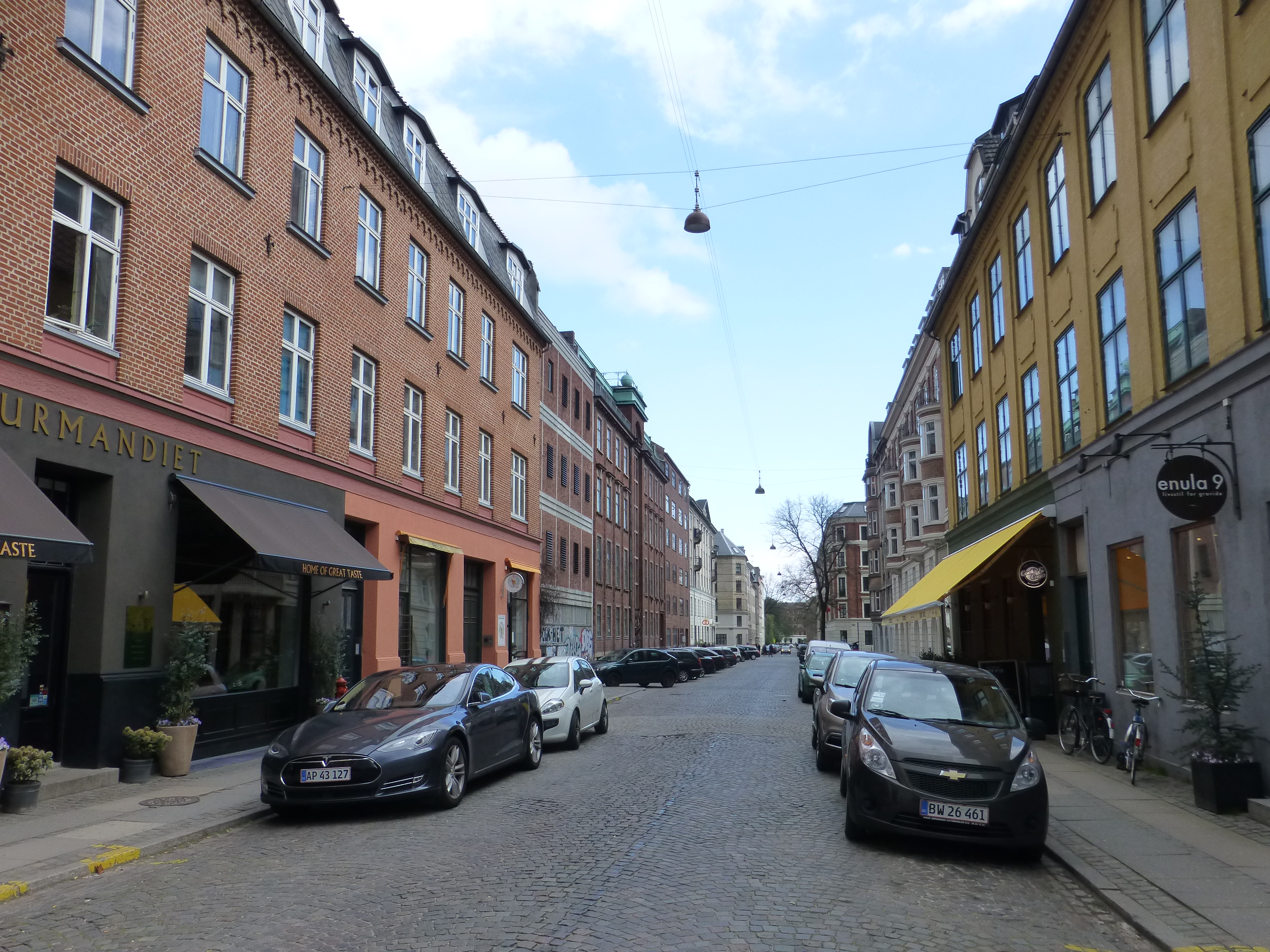 The street Rosenvængets Alle at Østerbrogade in Østerbro in Copenhagen.